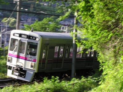 撮影地Place of photo高尾～高尾山口撮影の状況How to take林道（立入禁止の標識がないこと・一般者向けと思われる解説があることを確認済み）から撮影At mountain roadトリミングの有無Cropped or notトリミング済みCropped内容Description高尾線・京王7000系7705FKeiō 7000 series on Takao line